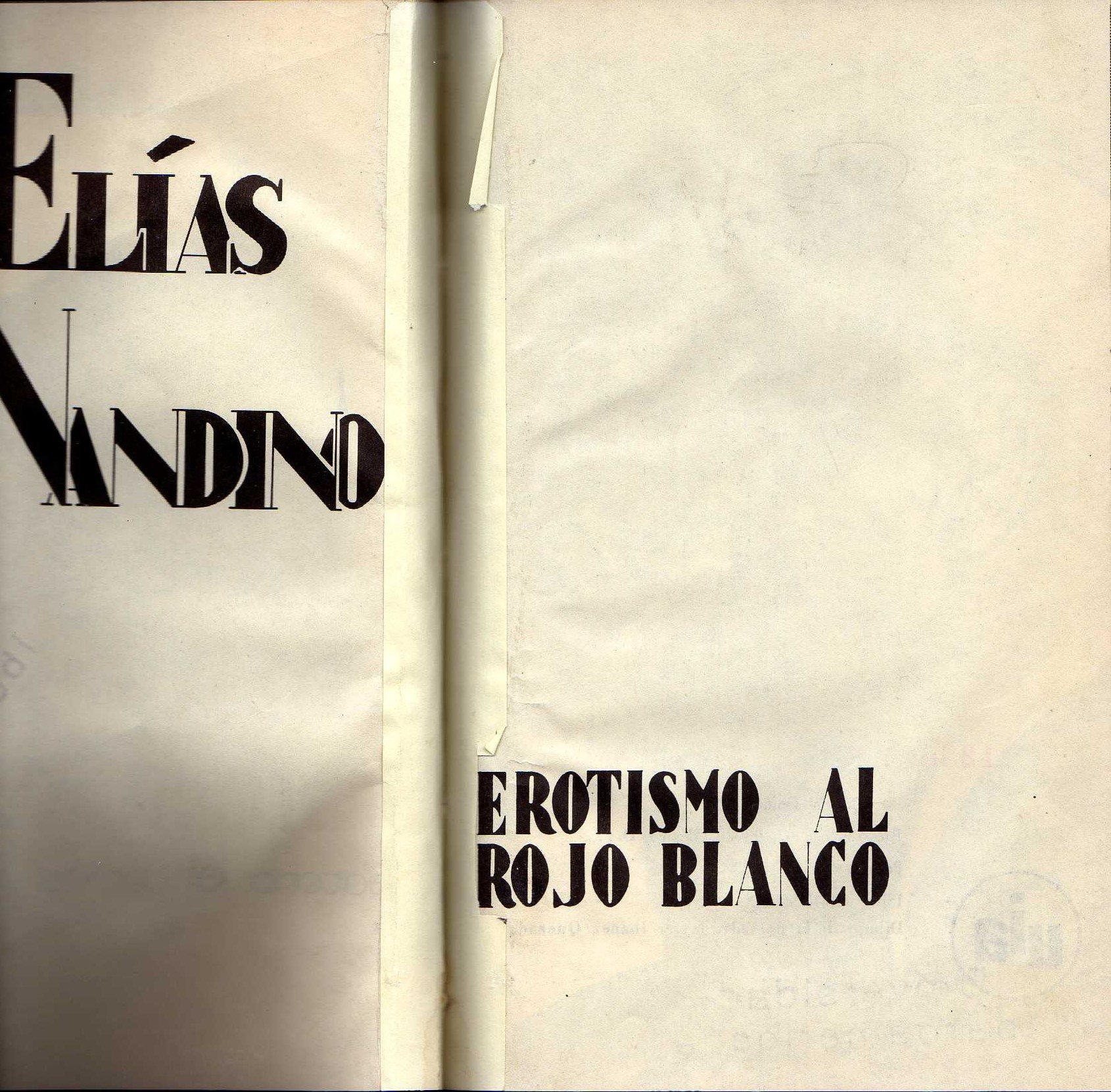 Erotismo al rojo blanco